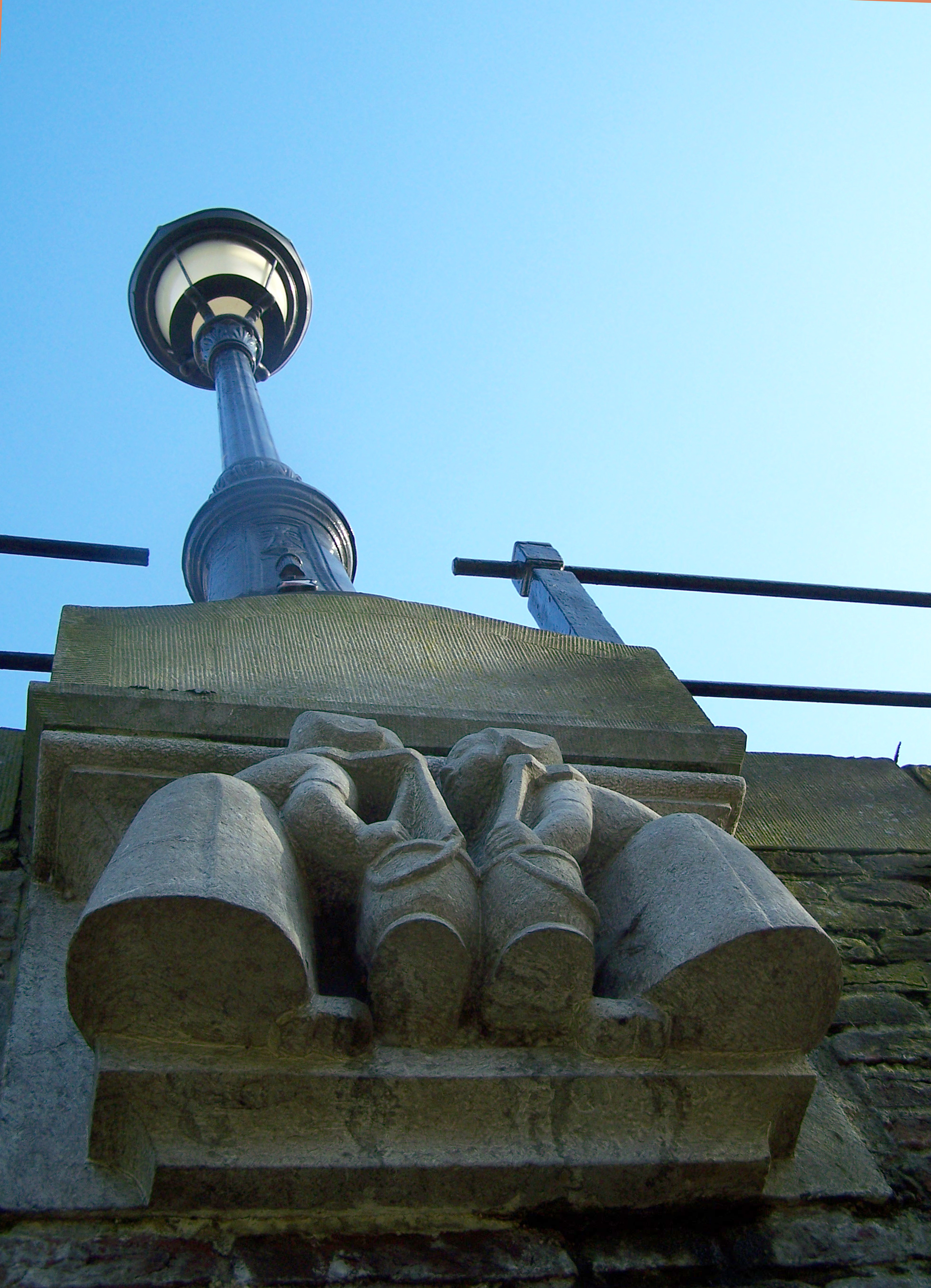 Streetlamp with a corbel of 'The Hoornsche Melkmeisjes" at the Oudegracht in Utrecht. The corbel is a design by Jeanot Bürgi. The streetlamp top is redesigned by Pycke Koch.